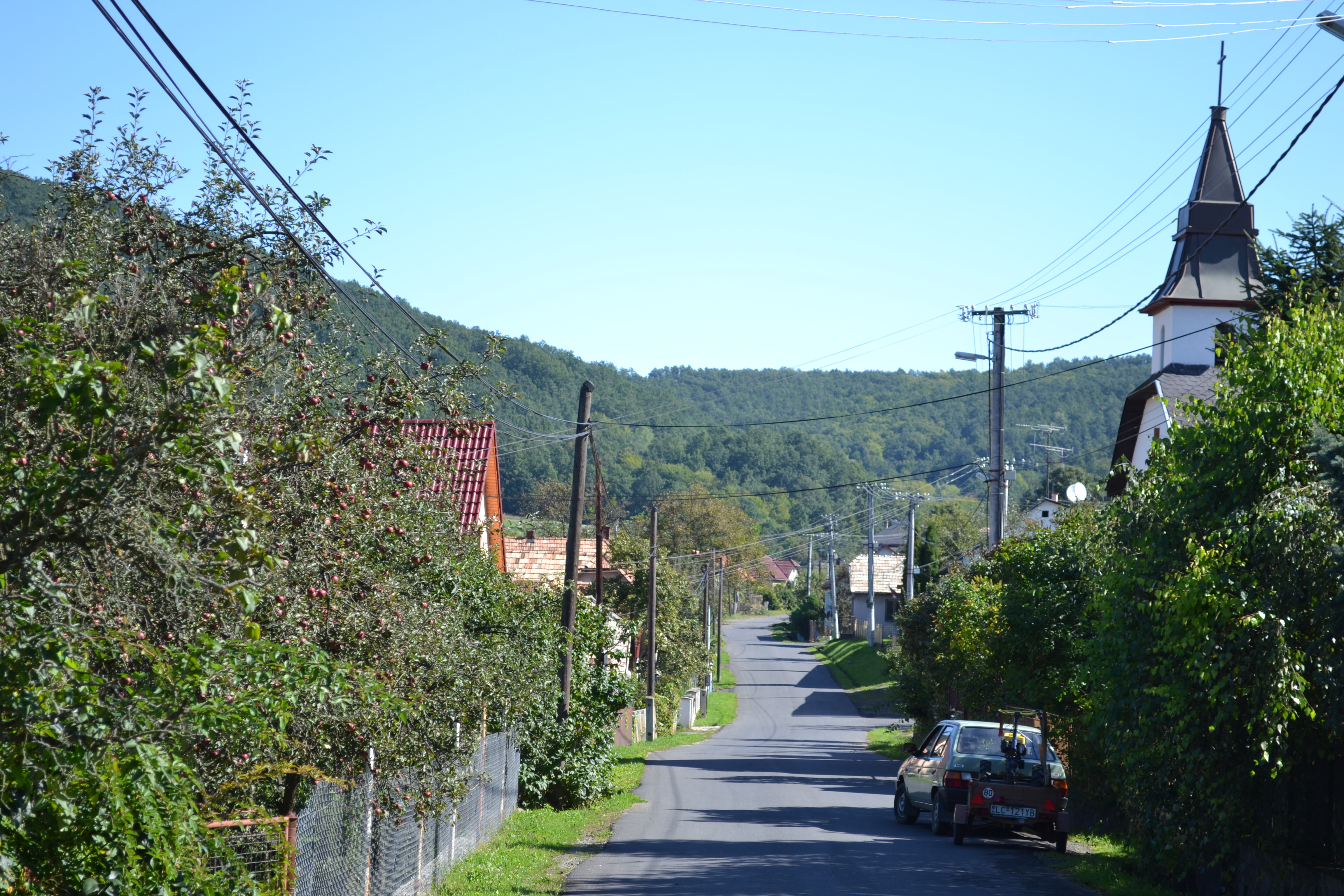 Street of the village Šiatorská Bukovinka